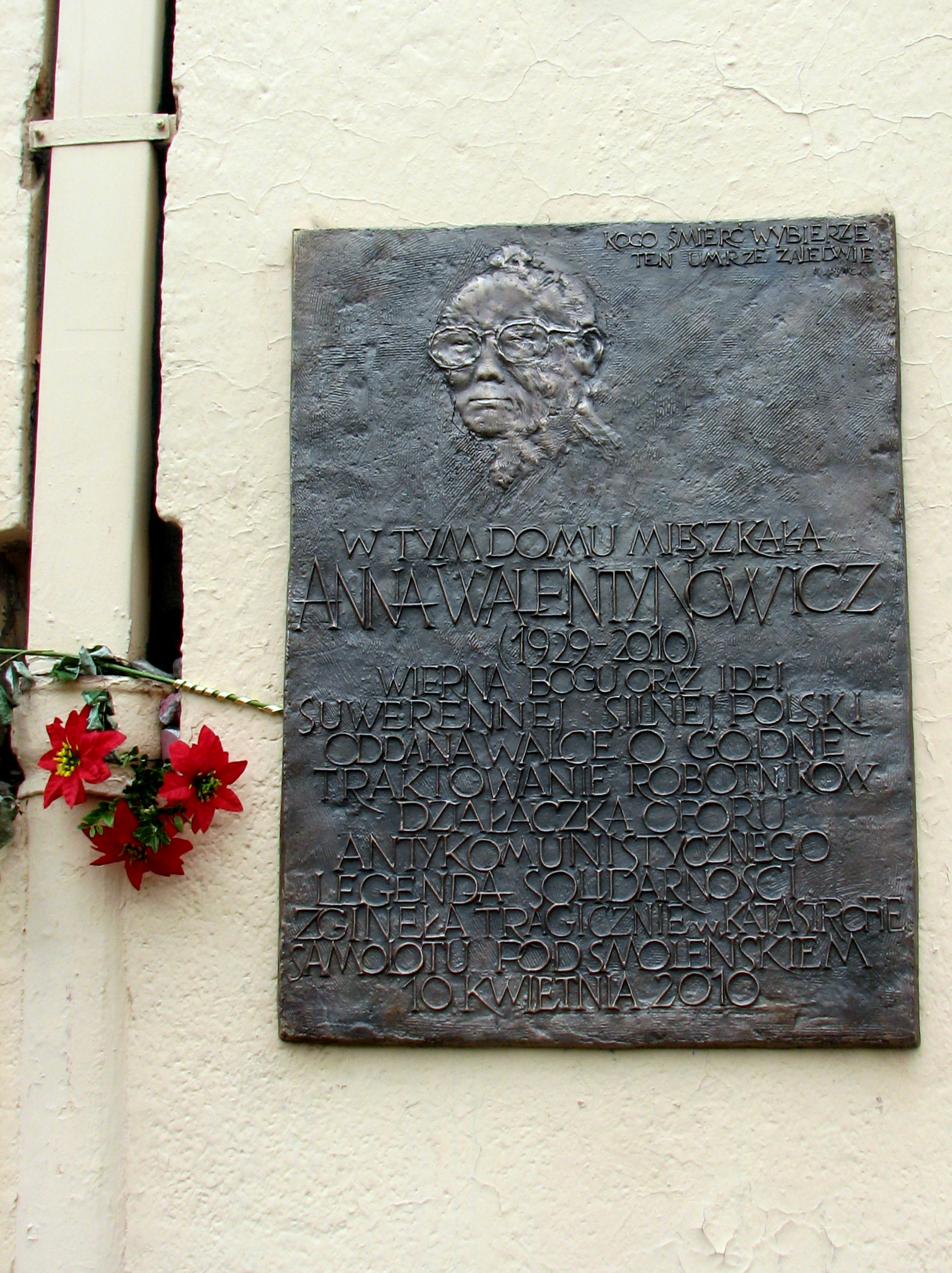 Plaque to Anna Walentynowicz on house, wherein she lived to death.